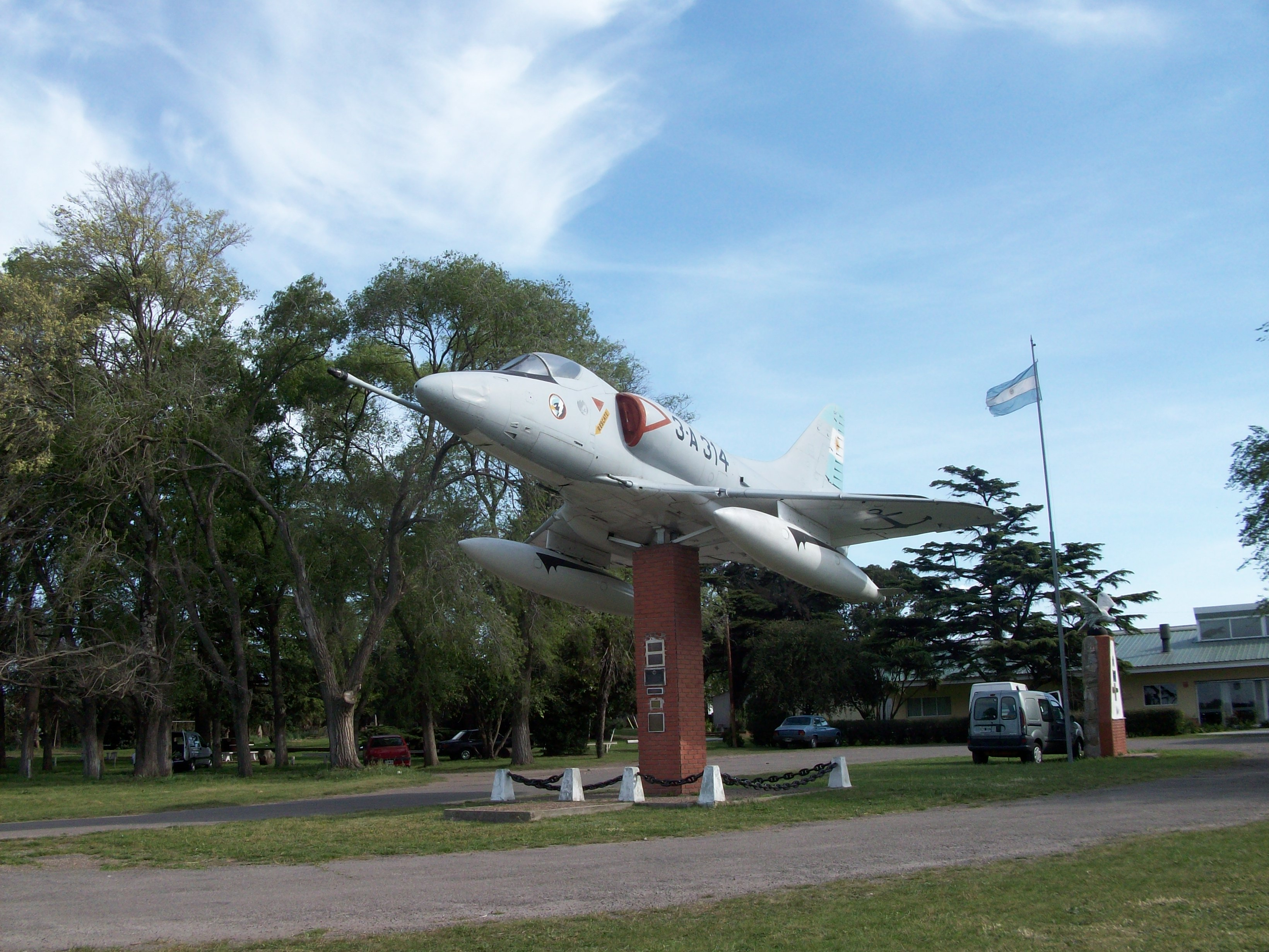 Real scale replica of A4 Skyhawk number A-314, shot down over Falklands Sound after giving the final blow to HMS Ardent, on 21 May 2008. The pilot Lieutenant Marcelo Gustavo Márquez was killed in action. Air Club Mar del Plata. Márquez had been born in this city and was a distinguished member of that club.